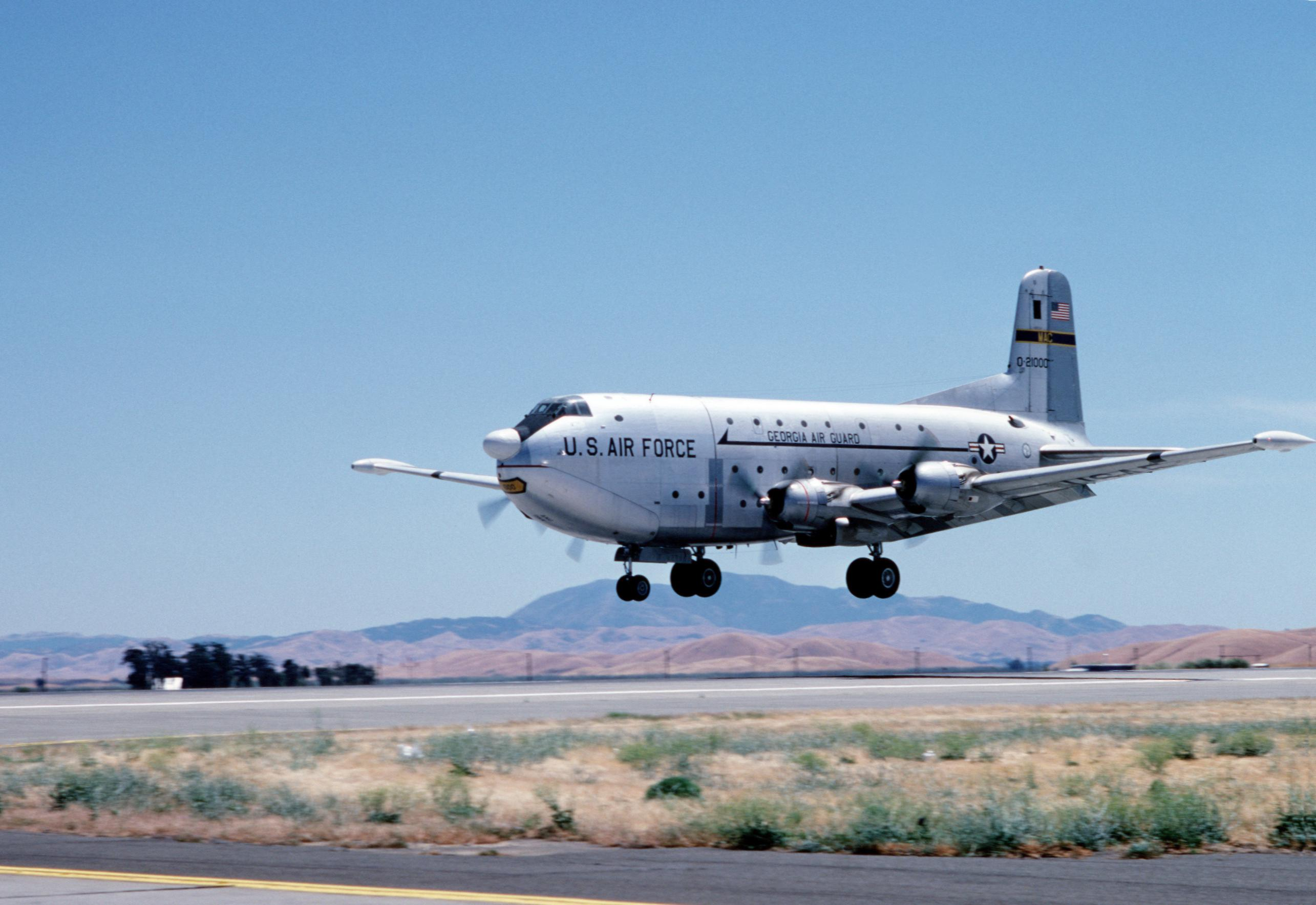 A restored U.S. Air Force Douglas C-124C Globemaster II (s/n 52-1000) aircraft prepares to touch down on the runway at the conclusion of its final flight to the Jimmy Doolittle Air and Space Museum at Travis Air Force Base, California (USA), on 10 June 1984.